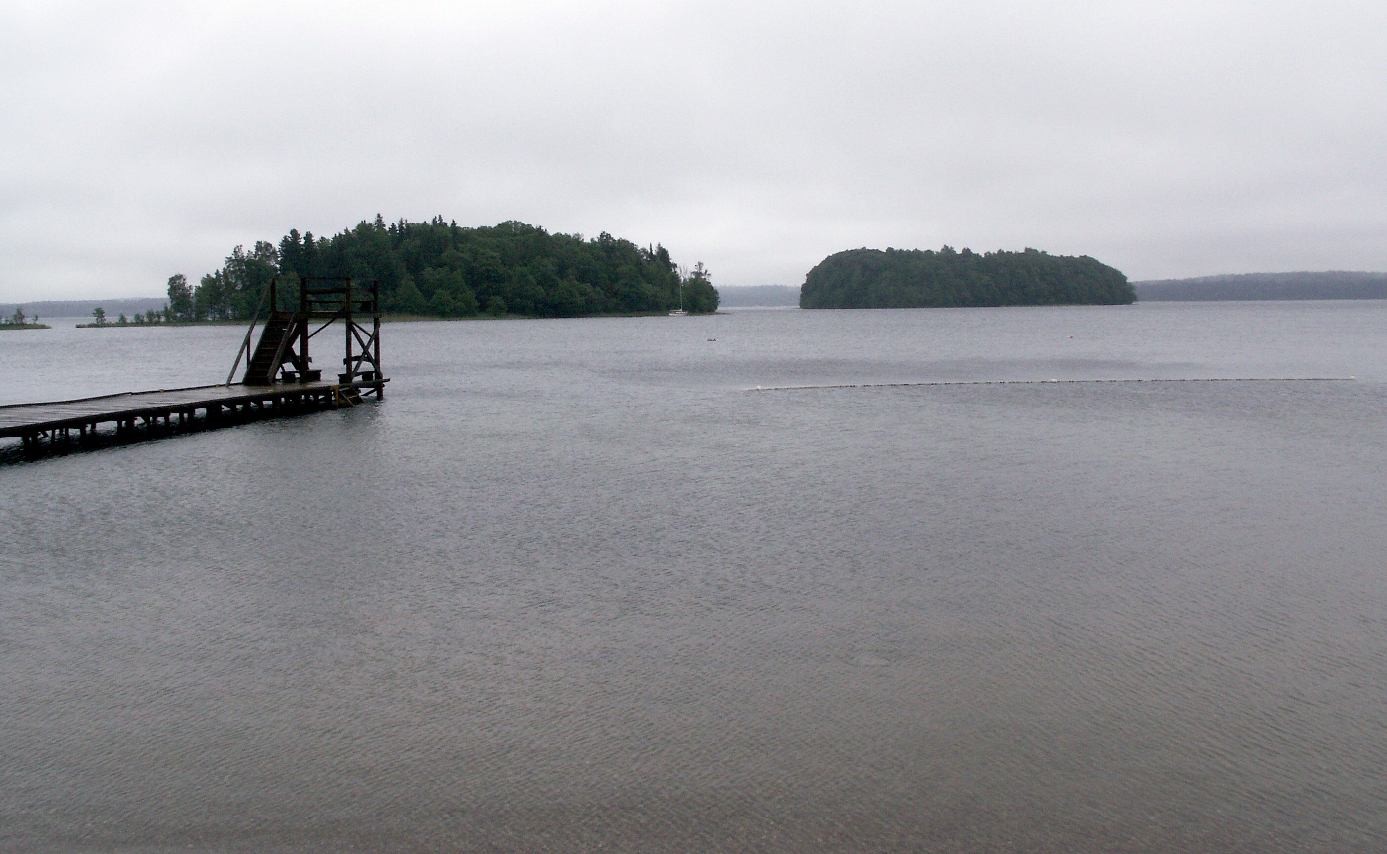 Plateliai Lake, Lithuania